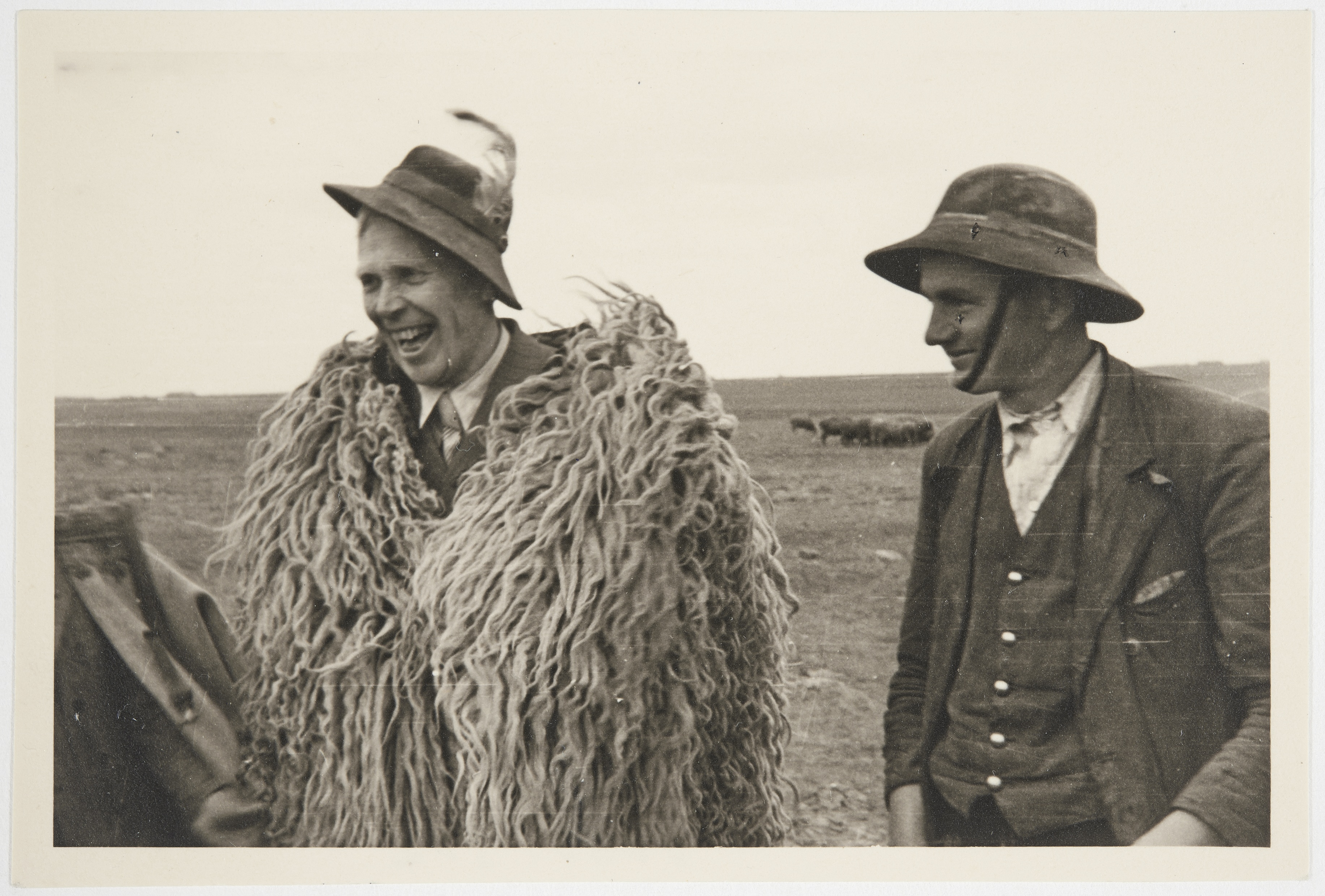 Photograph of the Finnish lawyer and professor Brynolf Honkasalo (1889–1973) during his visit to Hungary.